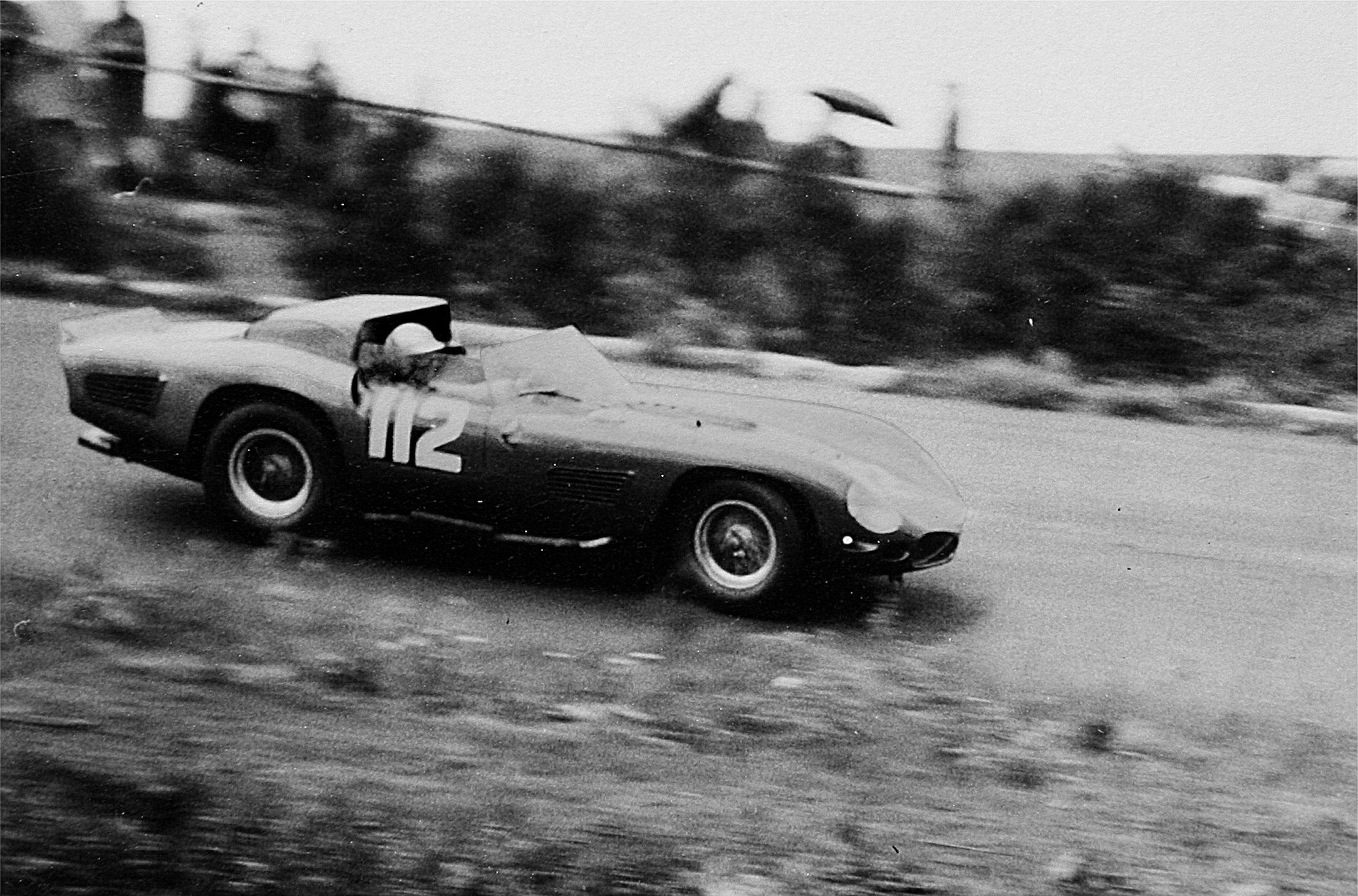 The 1961 Ferrari 250 Testa Rossa TRI61 (chassis 0792TR) of Carlo Abate/Umberto Maglioli, driving for Scuderia Serenissima in the 1963 Nürburgring 1000km. The car is shown exiting the Aremberg curve. They finished the race third overall.